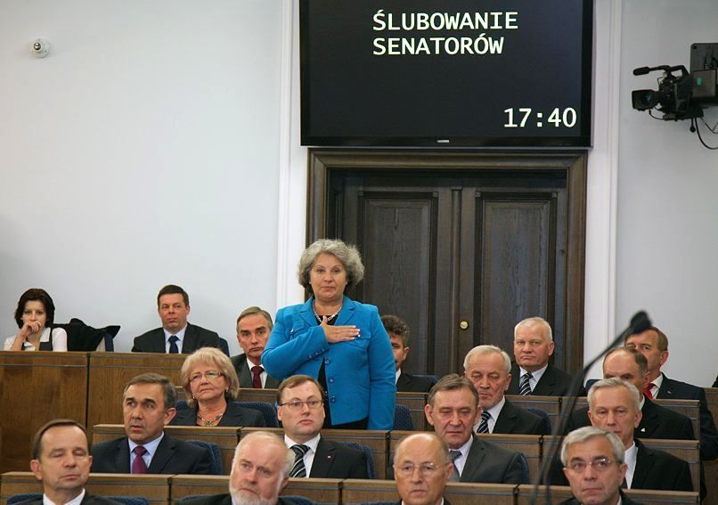 Senator Dorota Czudowska during the oath ceremony of the newly elected senators in the 8th term Senate